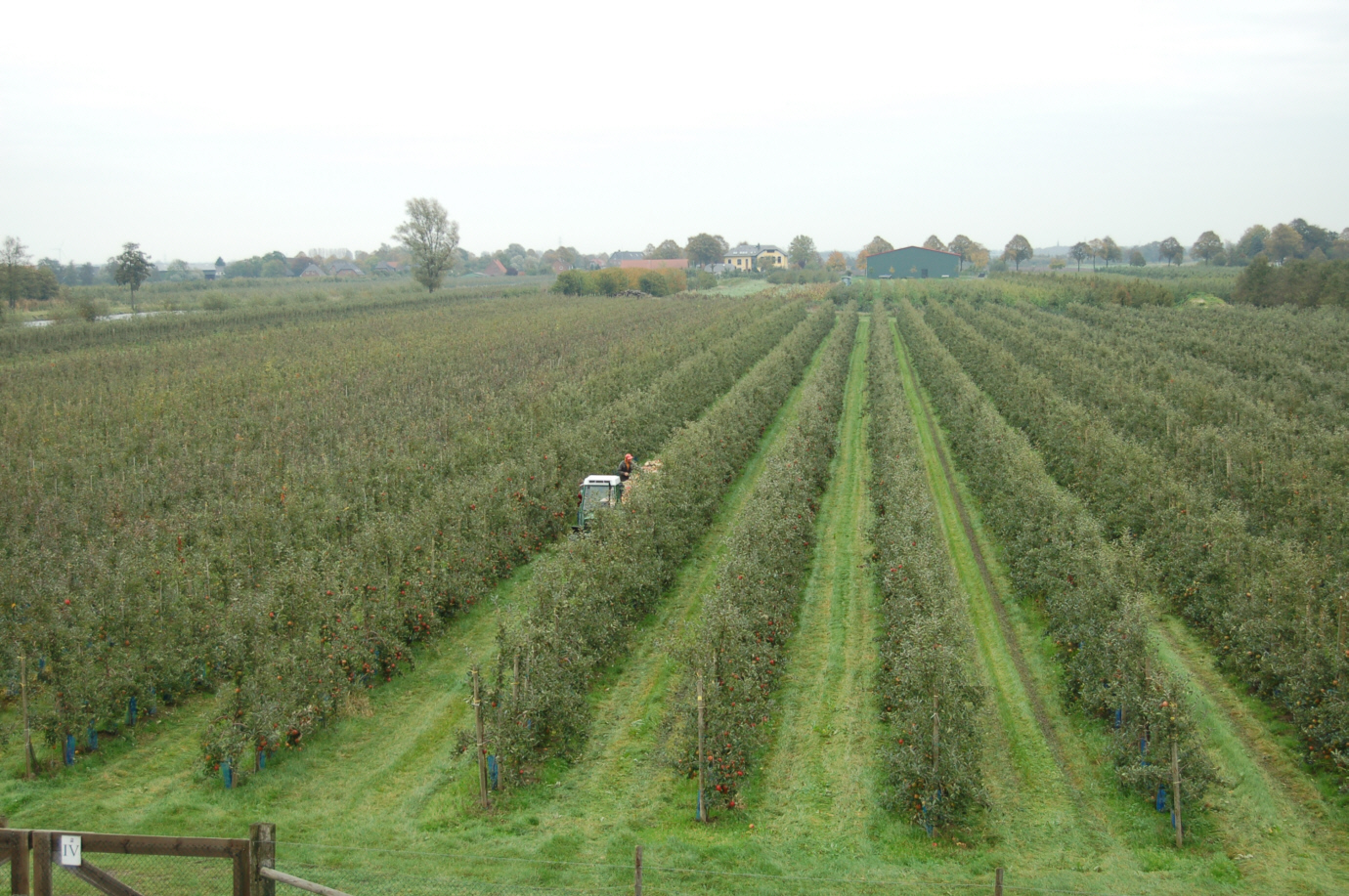 Malusplantation at the Seestermüher Marsch.